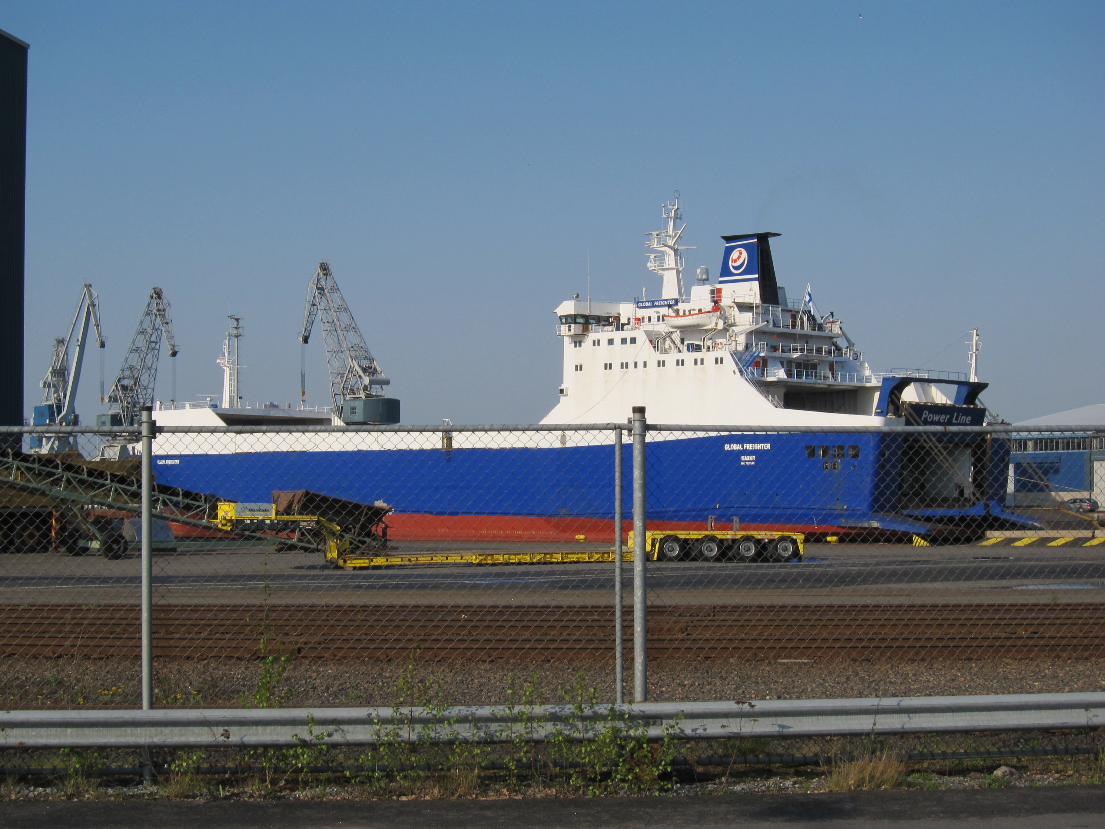 Finnish RoRo cargo ship M/S Global Freighter in Port of Turku, Turku, Finland.